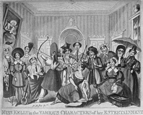 Frances Maria Kelly (October 15, 1790, Brighton - 1882), also known as Fanny, was an actress and singer at the Drury Lane Theatre